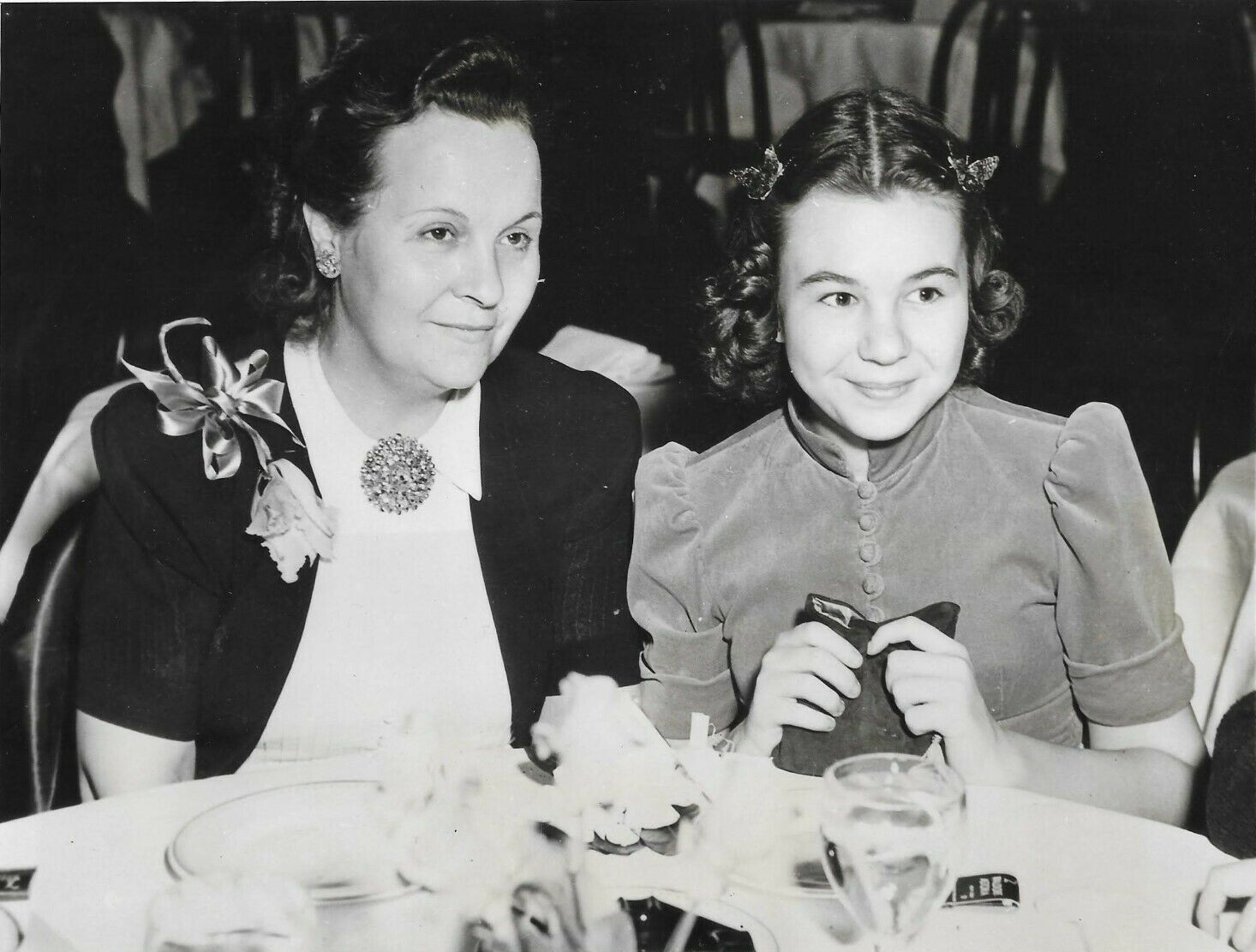 Press photo of Jane Withers and her mother Ruth Withers in April 1939